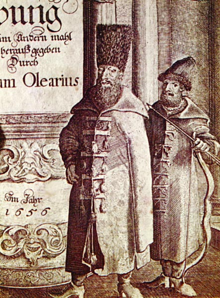 Russian boyare from Adam Olearius's book